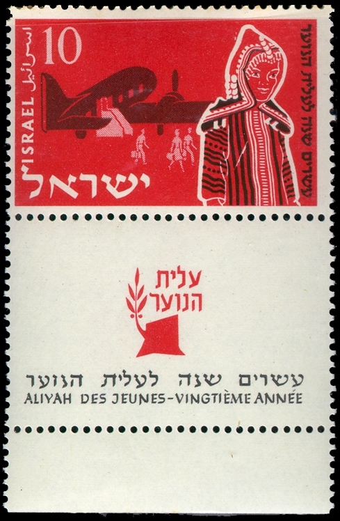 Youth Aliyah stamp - 10 mil - Immigration by plane. Commemorating the twentieth anniversary of Youth Aliyah. Inscription on tab: "Twentieth anniversary of Youth Aliyah"